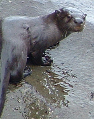 Photo of a northern river otter in pacific tide pools in Olympic National Park. Taken by User:Reywas92 on July 31, 2006. (In the details below, my camera's date was wrong.)